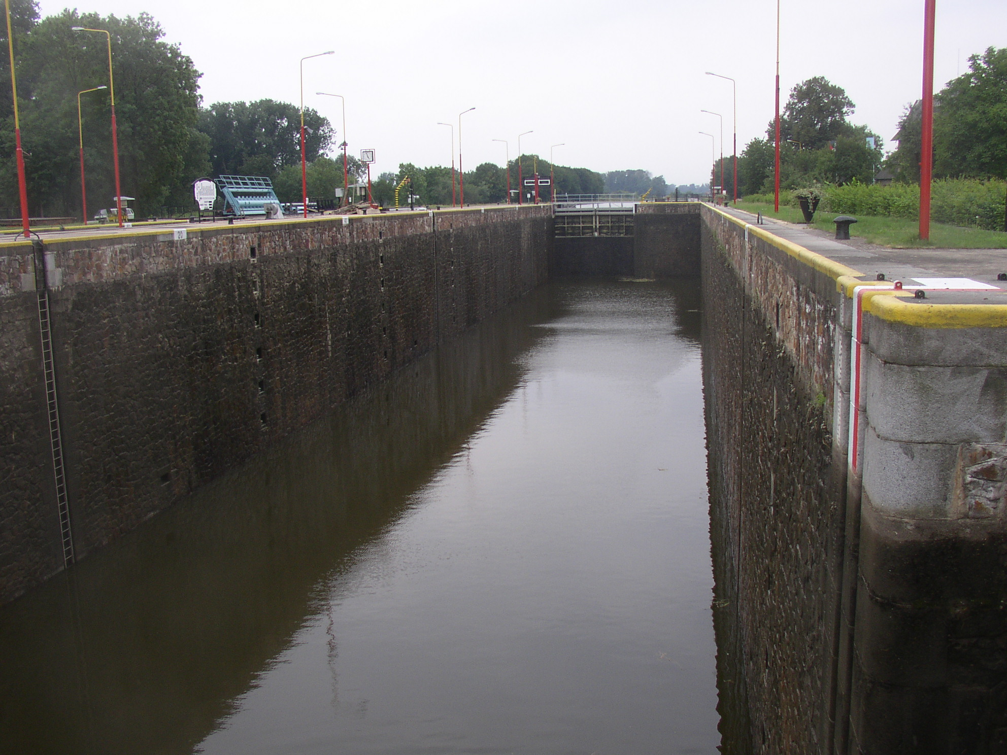 Hořín Lock on Vltava Lateral Canal near Mělník, Czech Republic. A view of the larger of its two chambers (length 137,5m, width 20m); the smaller chamber is separated by the longitudinal wall in axis of the canal in the left part of the image.